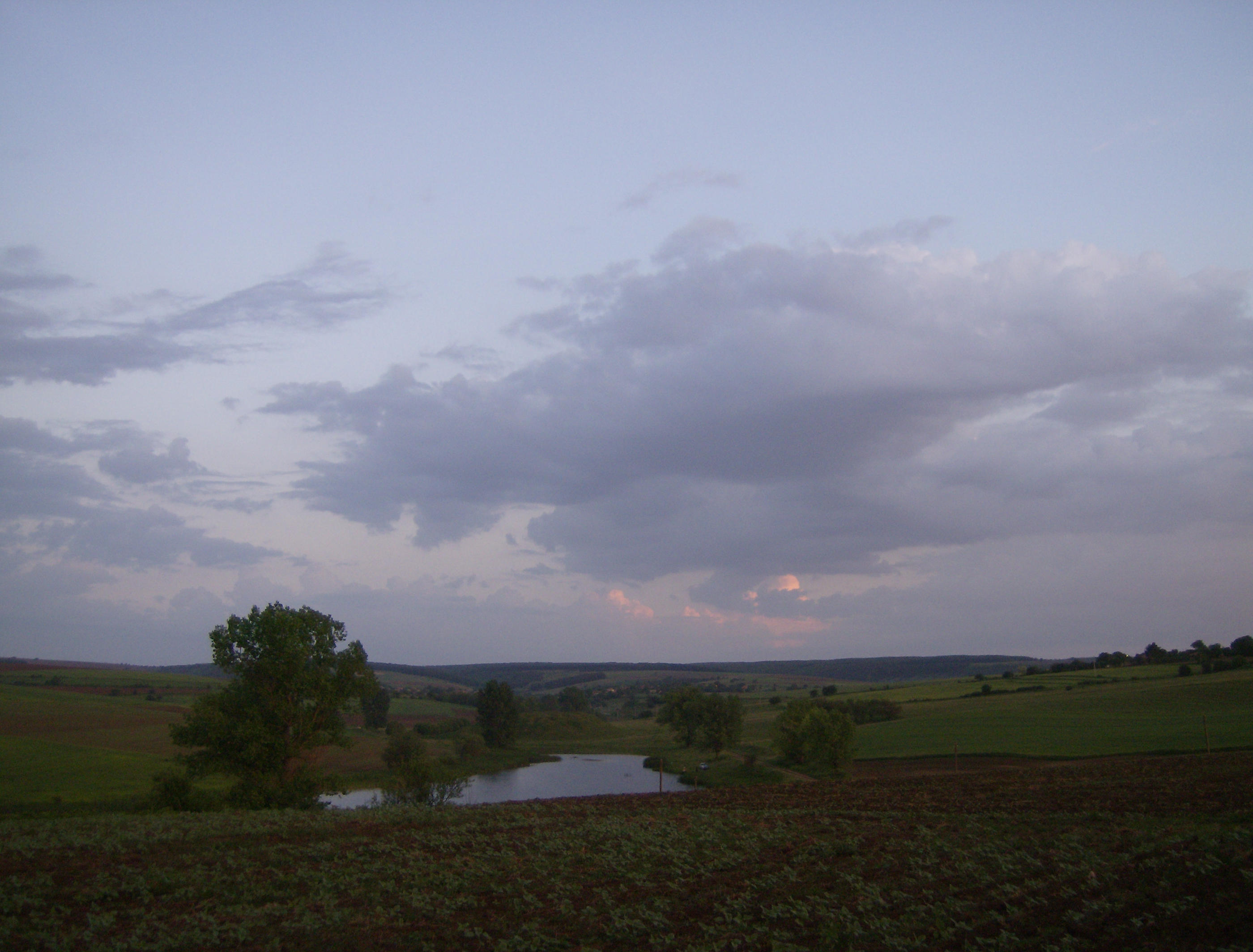 Vilage Boyan. Shumen Province